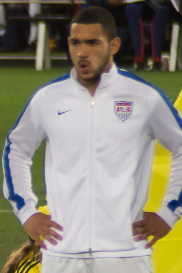 USA-Columbia, FIFA U20 World Cup